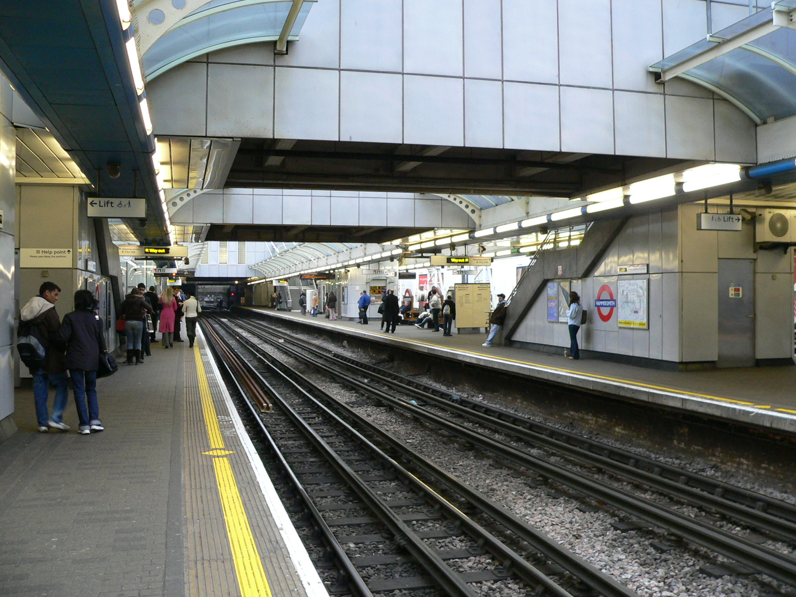 The Piccadilly Line platforms at Hammersmith tube station. District Line trains call at the outer platforms to the left and right of this picture.